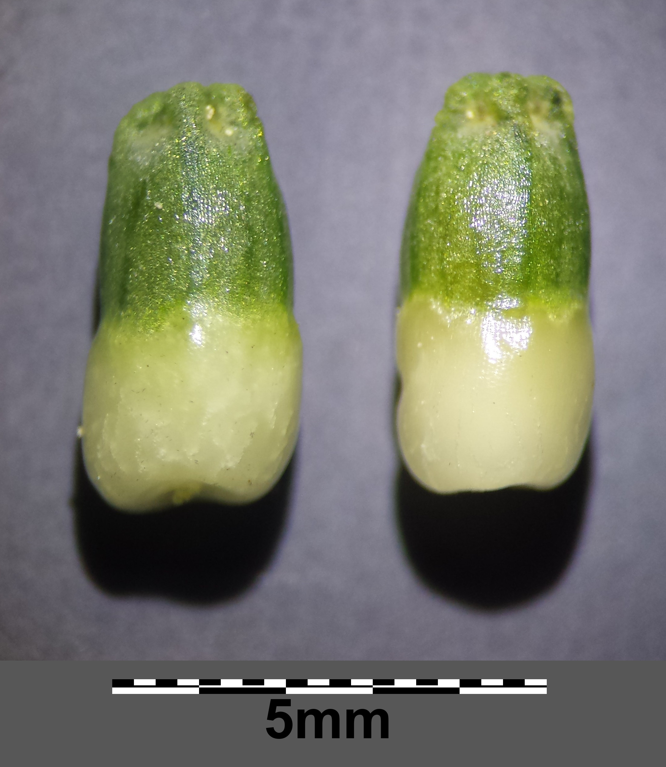 Fruits Taxonym: Thesium dollineri ss Fischer et al. EfÖLS 2008 ISBN 978-3-85474-187-9 Location: Latschenberg near Altenmarkt im Thale, district Hollabrunn, Lower Austria - ca. 350 m a.s.l. Habitat: semi-dry grassland